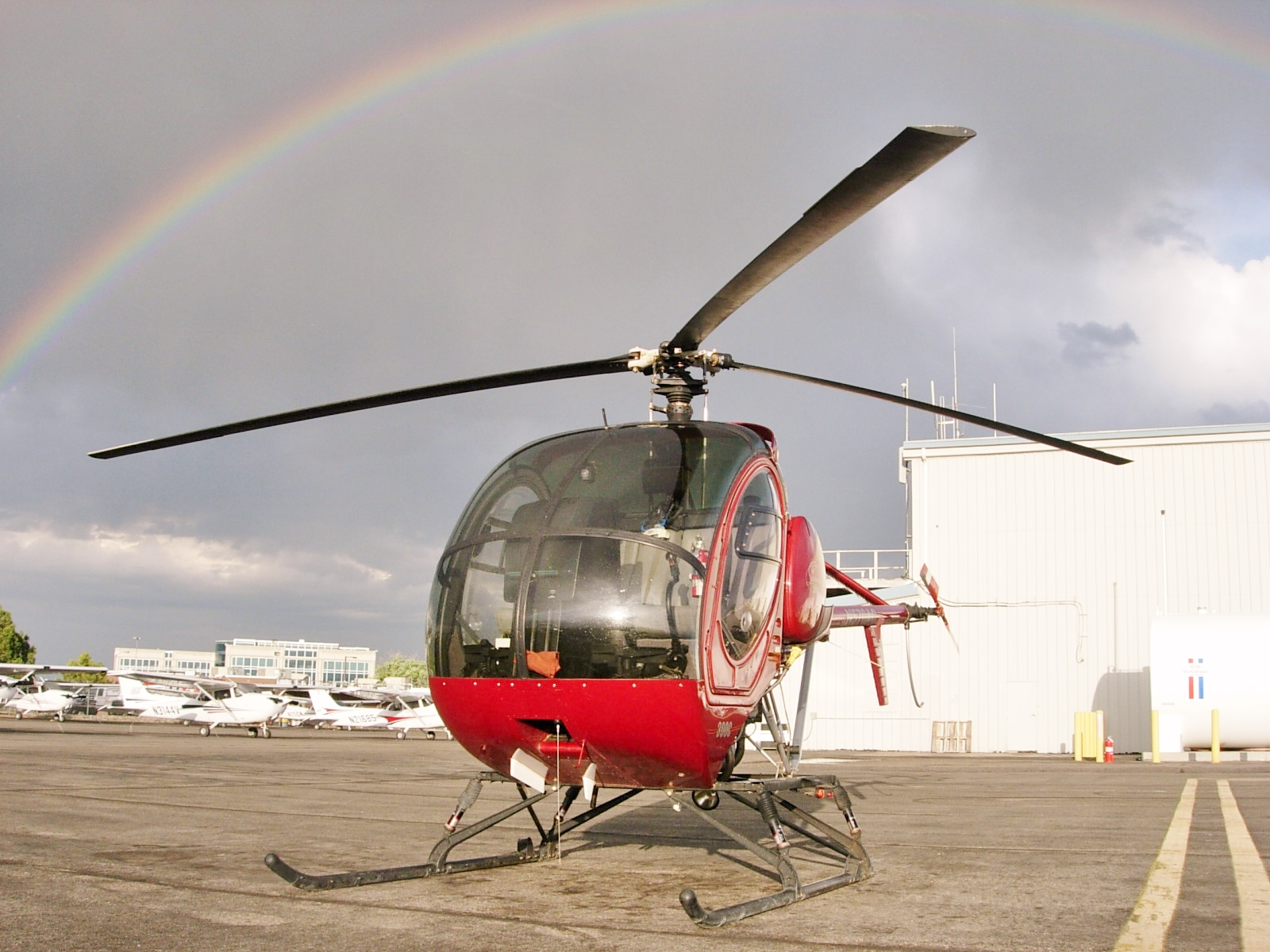 Schweizer 300C 'N570AC' on the ramp at Rotors of the Rockies, Colorado after a storm